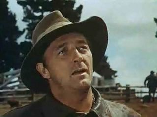 Screenshot of Robert Mitchum from the trailer for the film The Sundowners